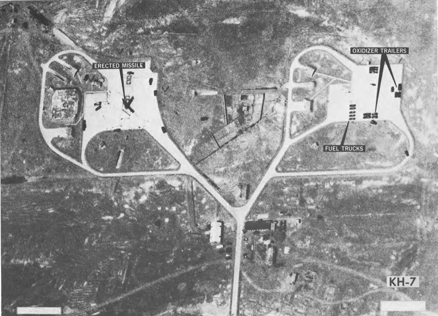 KH-7 GAMBIT satelllite image of the Shuang Cheng Tzu Missile Center A (Jiuquan Satellite Launch Centre)